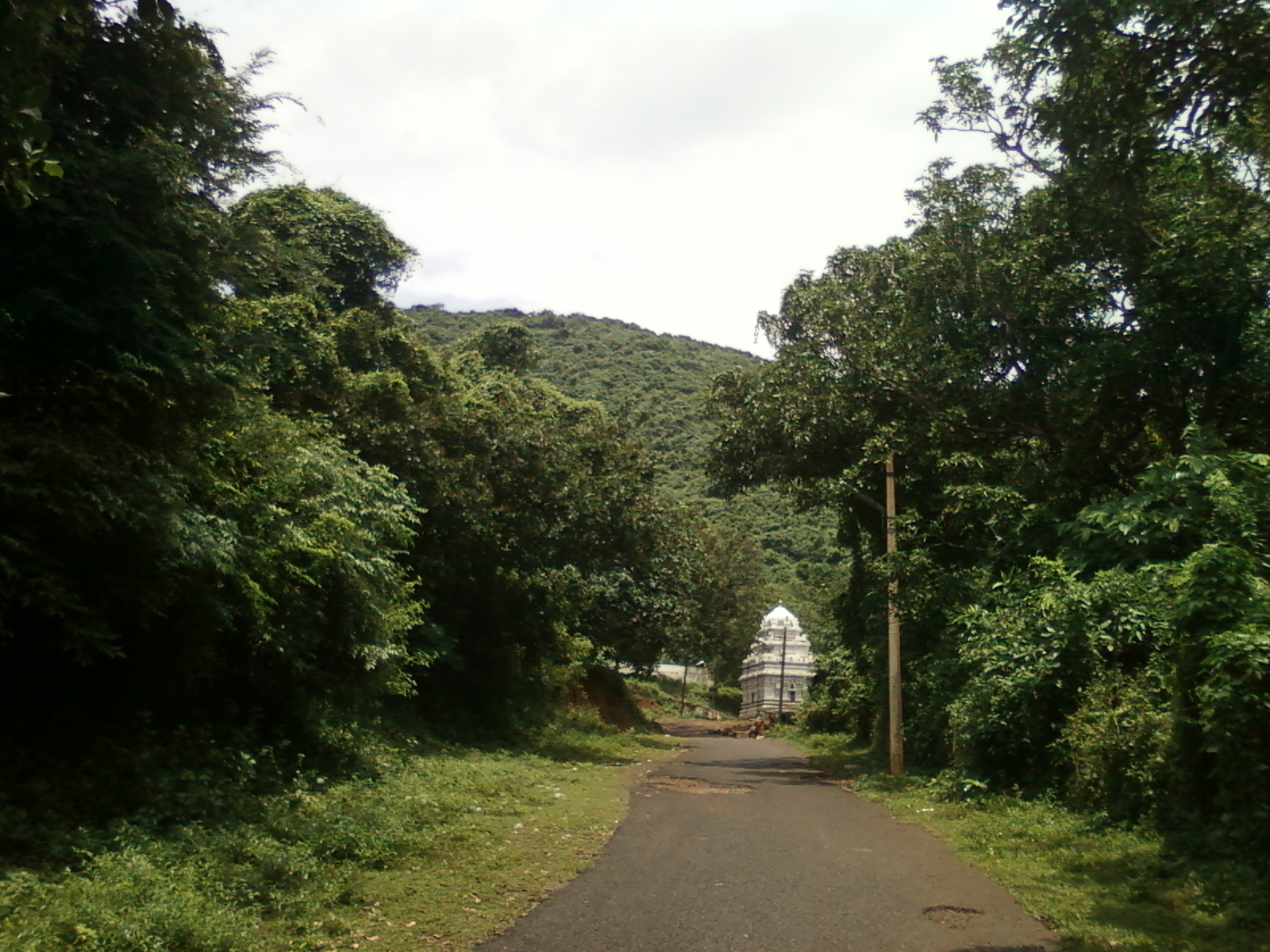 Road to Madhavadhara Temples in Visakhapatnam